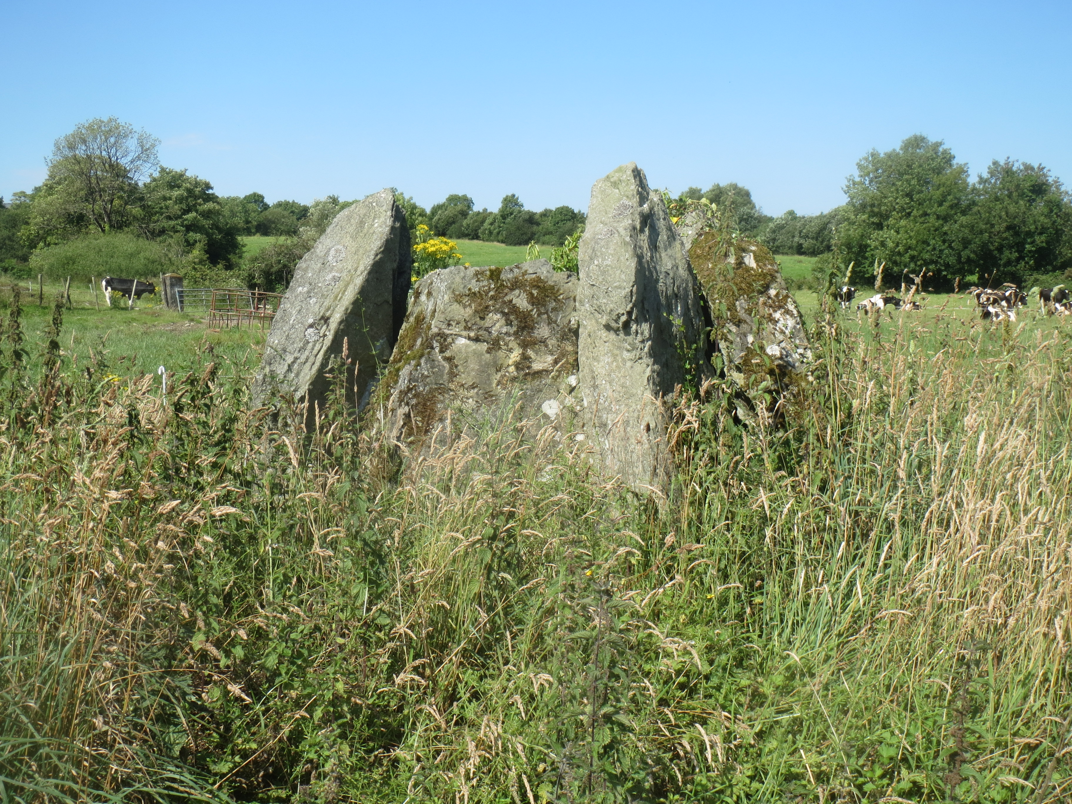 Birrinagh Portal Tomb